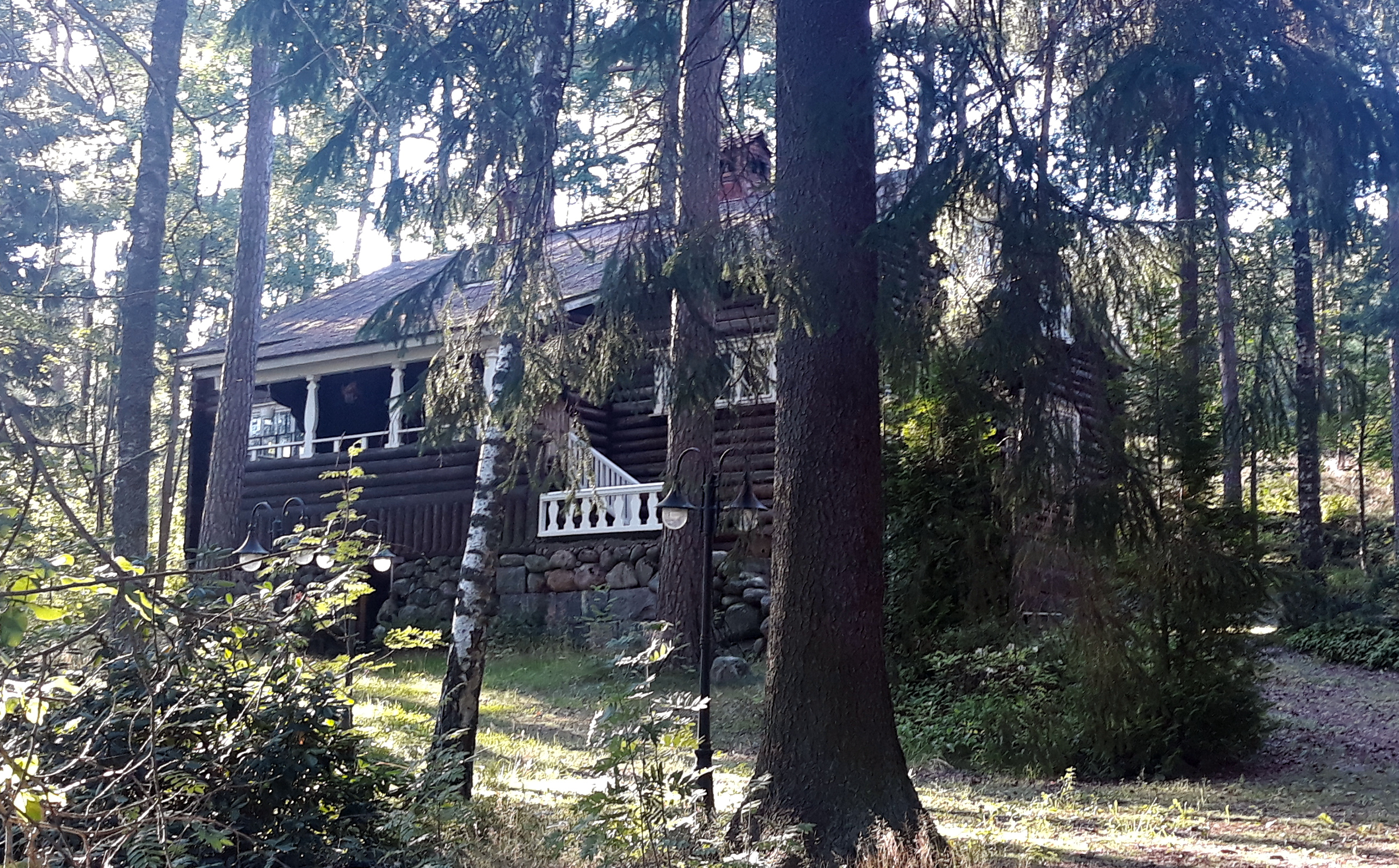 Villa Achille in Meri-Rastila, Helsinki.